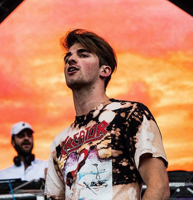 The Chainsmokers playing live at VELD 2016